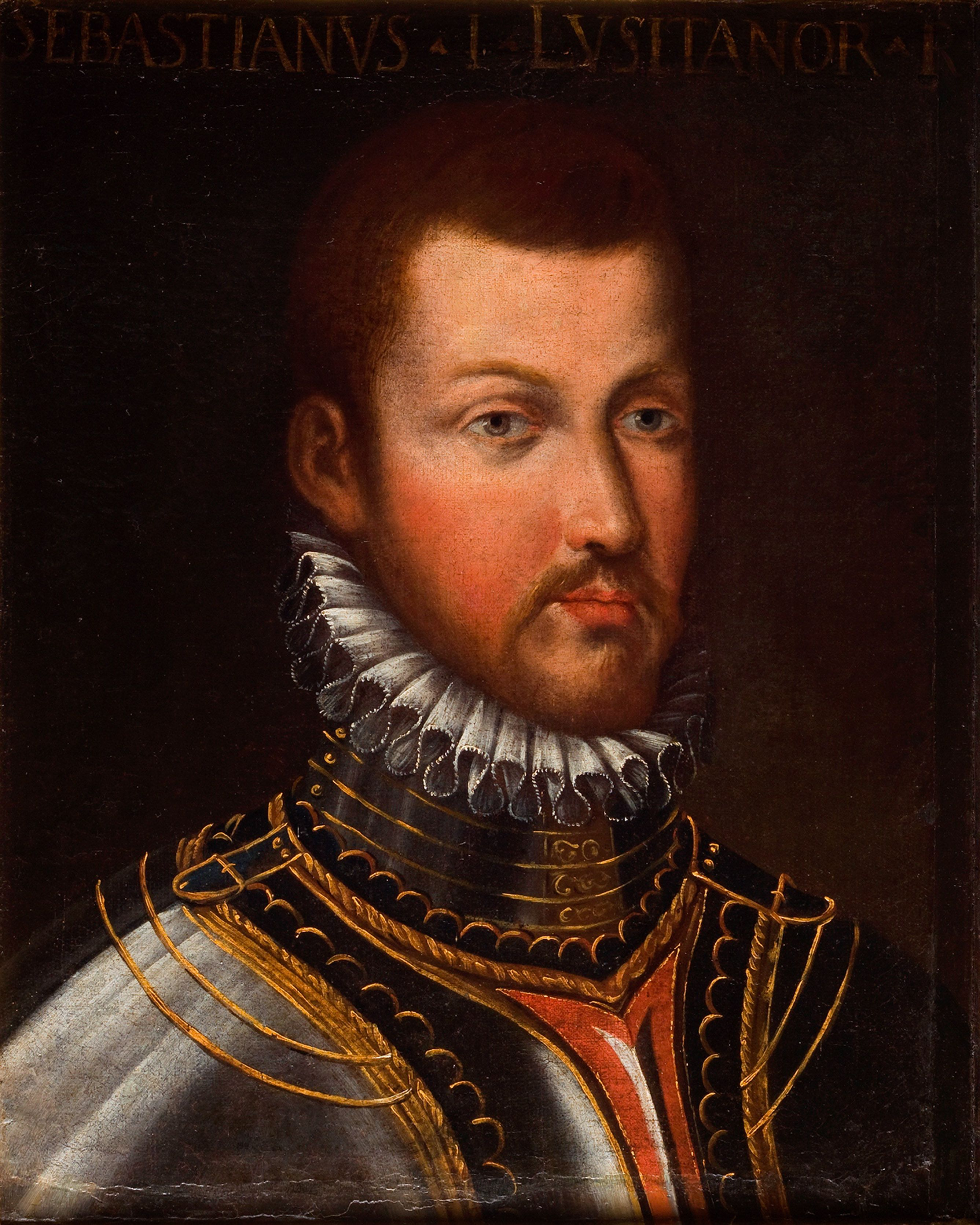 Portrait of King Sebastian of Portugal, painted c. 30 years after his disappearance in the Battle of Three Kings (1578).